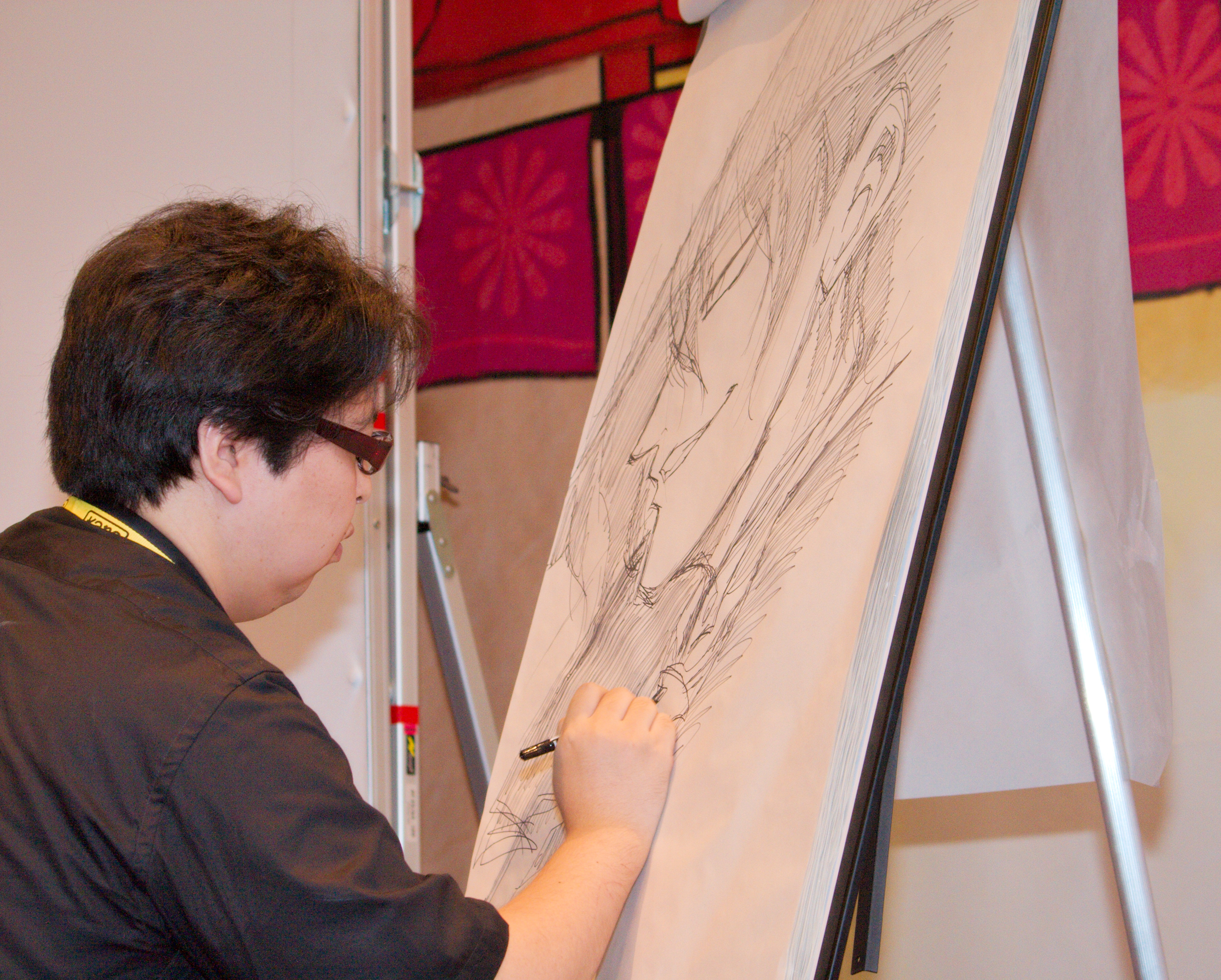 Conference with Kouta Hirano at Japan Expo 2008 (Paris, France).